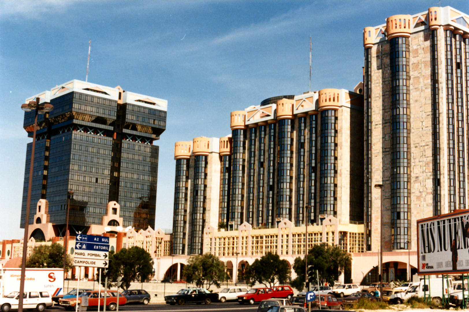 Torres das Amoreiras, Lisbon, Portugal. Architect Tomás Taveira. Photo taken May 1993 by author. --maf 12:23, 19 August 2006 (UTC)